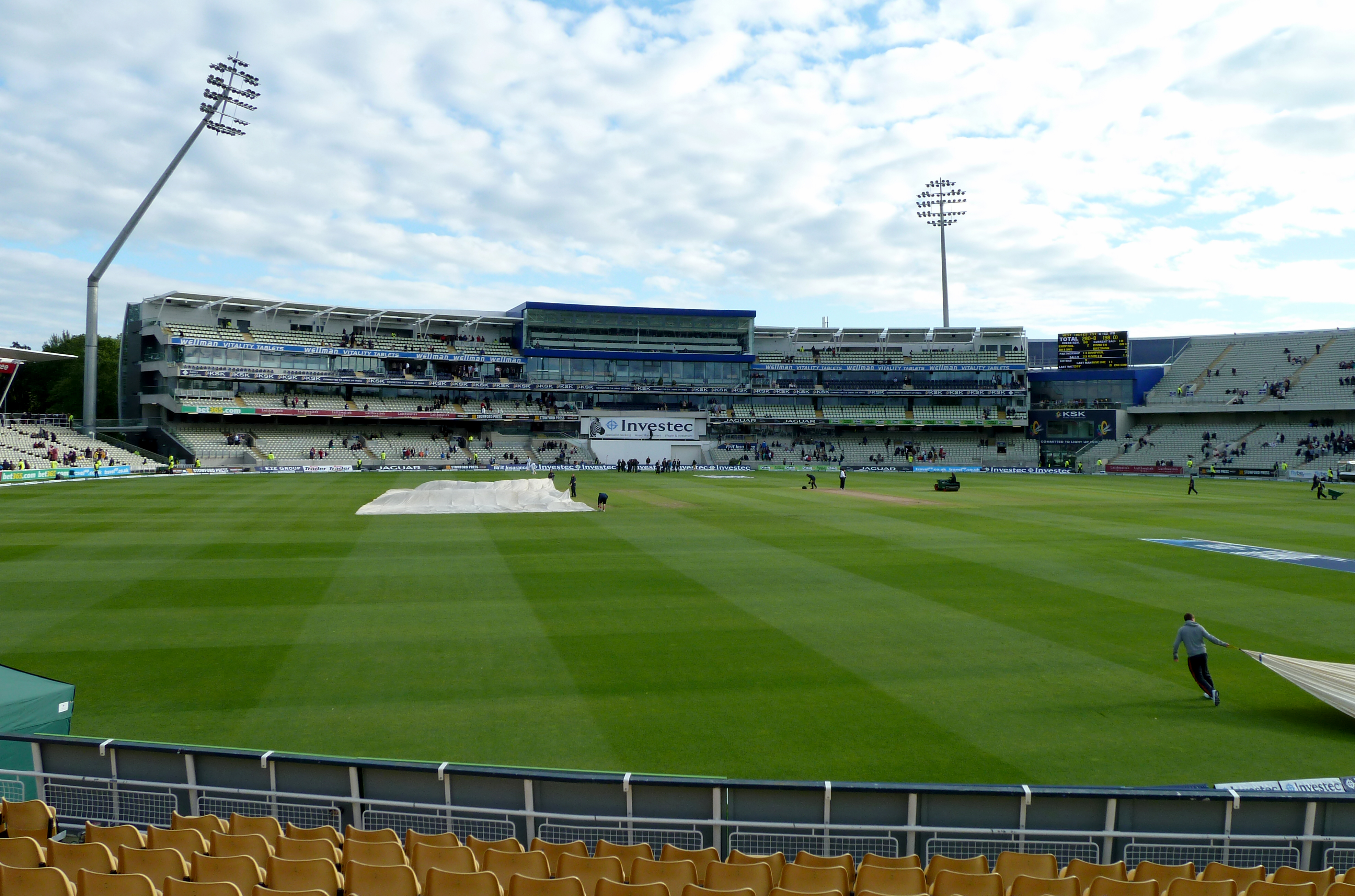 The South and West Stands at Edgbaston Cricket Ground at close of play